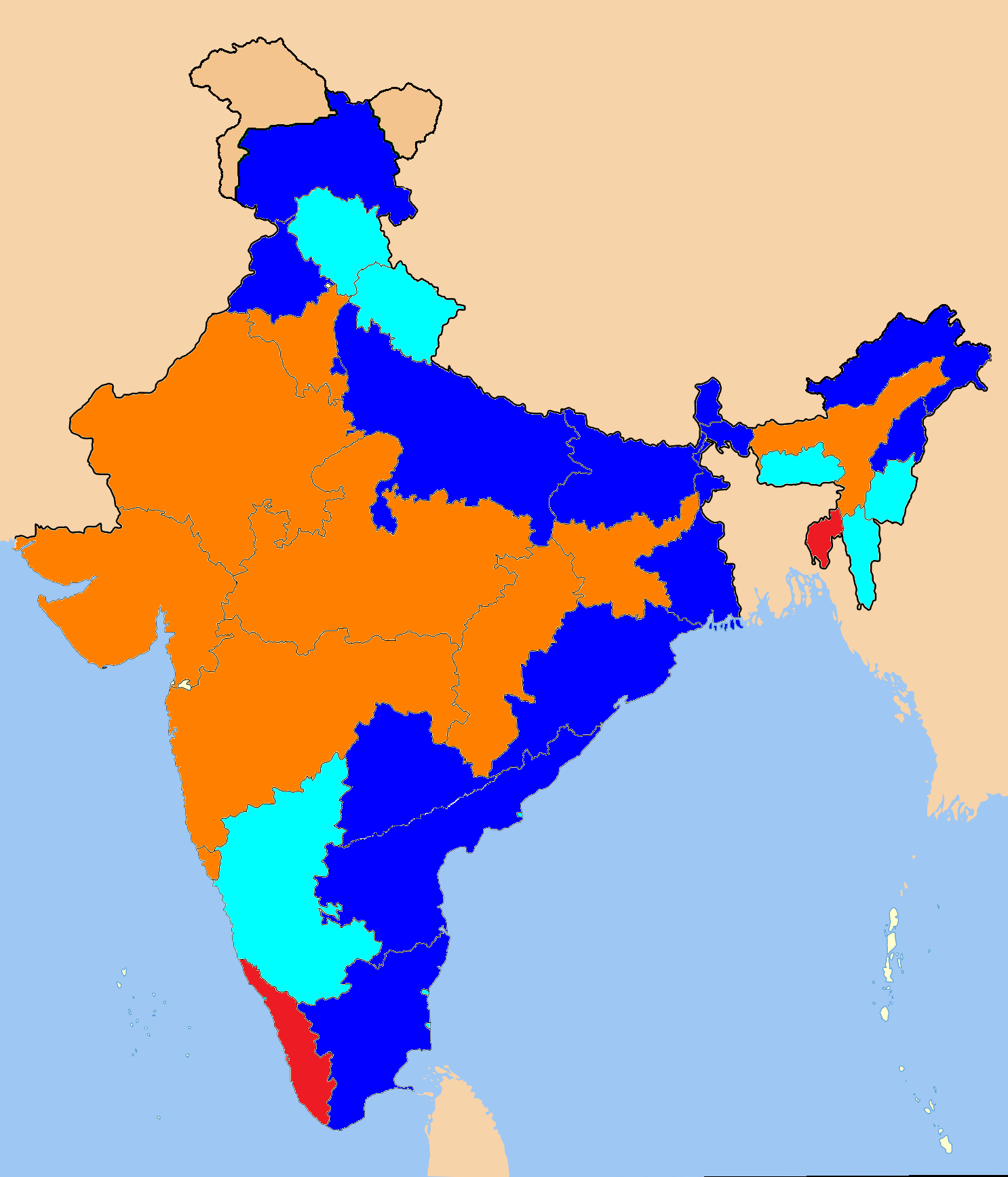 Indian states according to party of their chief minister. Indian National Congress Bharatiya Janata Party Communist Party of India (Marxist) Other parties